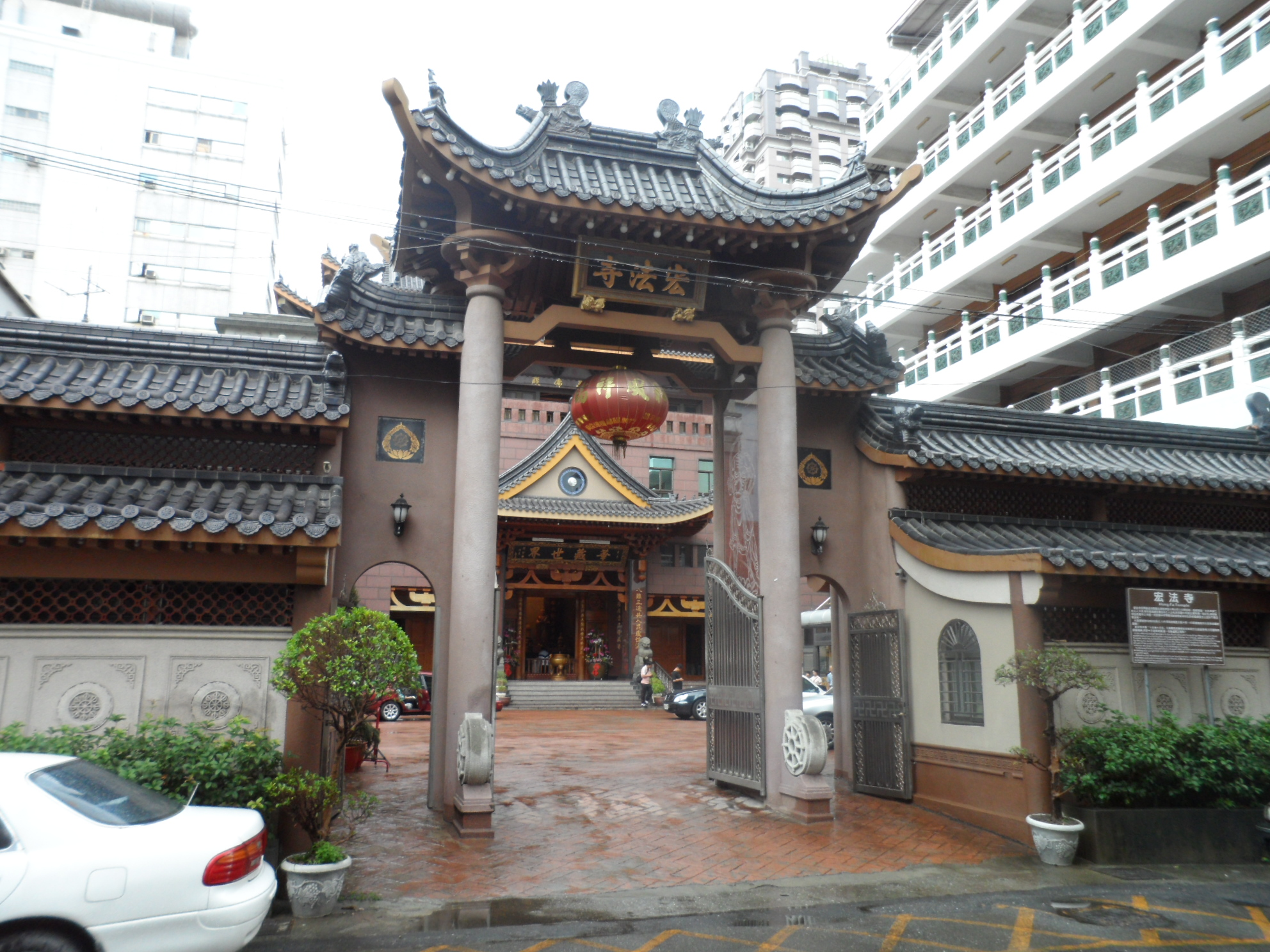 Hong Fa Temple, Xinxing District, Kaohsiung City, Republic of China